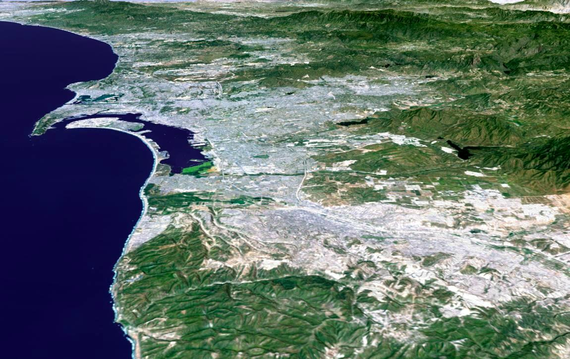 3-D perspective image of the San Diego-Tijuana area from NASA's Shuttle Radar Topography Mission (SRTM)